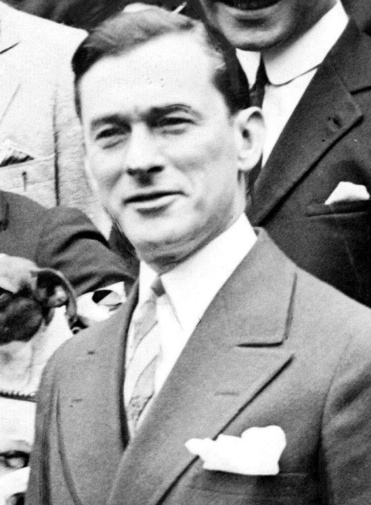 New York Mayor James Walker; cropped from photo of Walker with Umberto Nobile